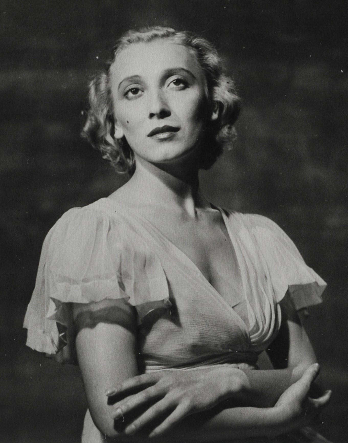 Olga Sławska (1915-1991), prima ballerina of the Polish Ballet in in the years 1937-1939